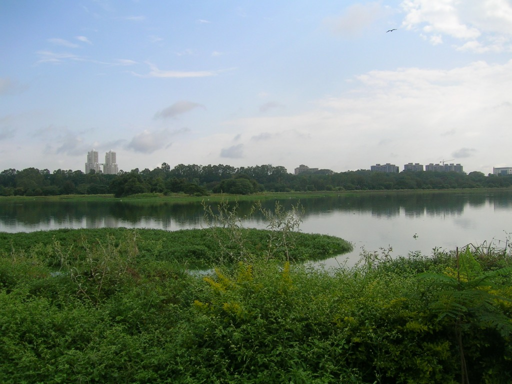 Hebbal lake, Bangalore in 2008 looking northwards